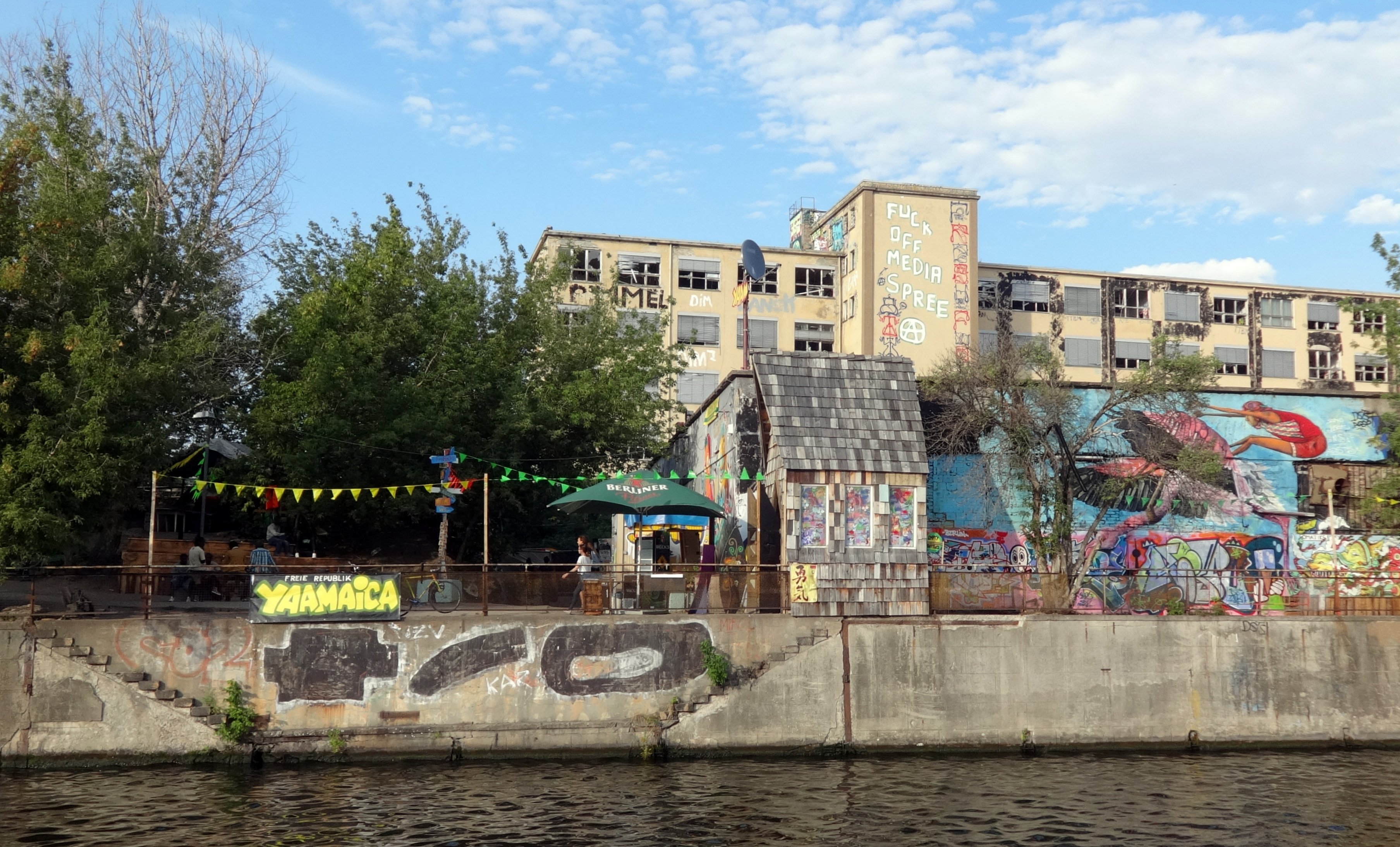 "Free Republic Yammaica" in Berlin